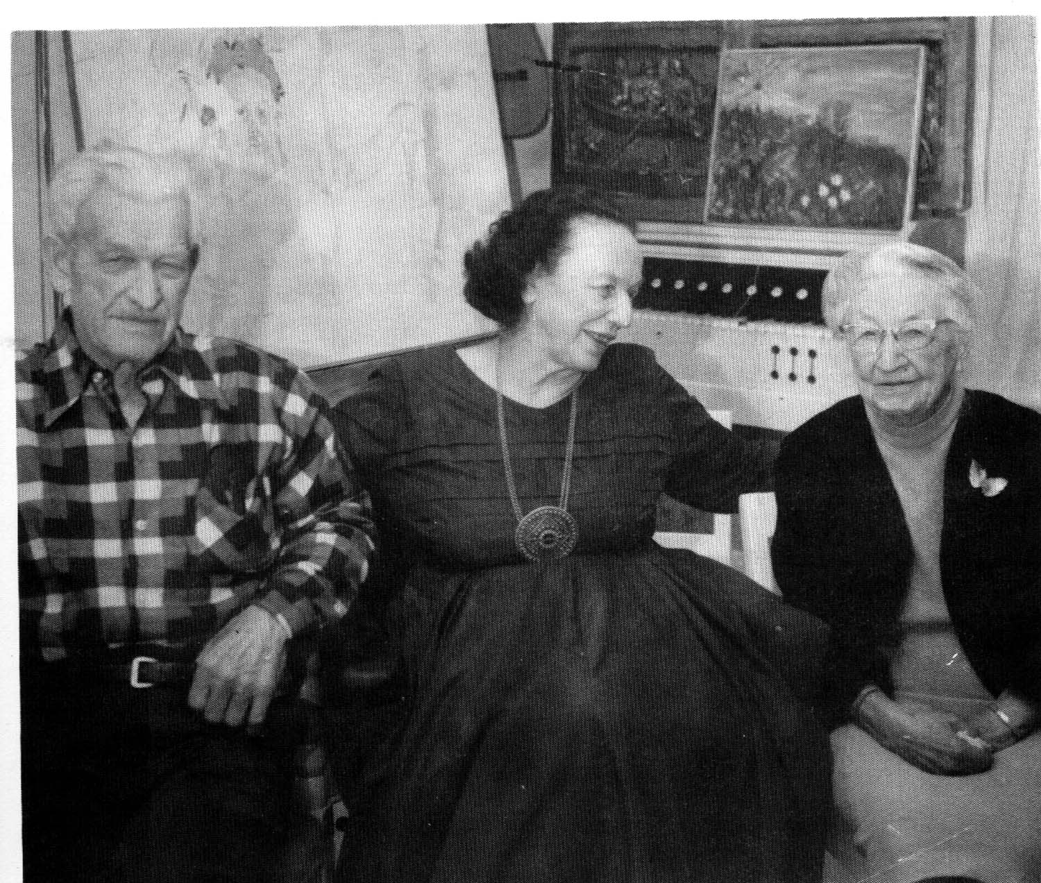 Norwegian author Ingeborg Refling Hagen (195-1989) with sieblings Gustav A. Hagen (1892-1981) and Louise (1887-1980)